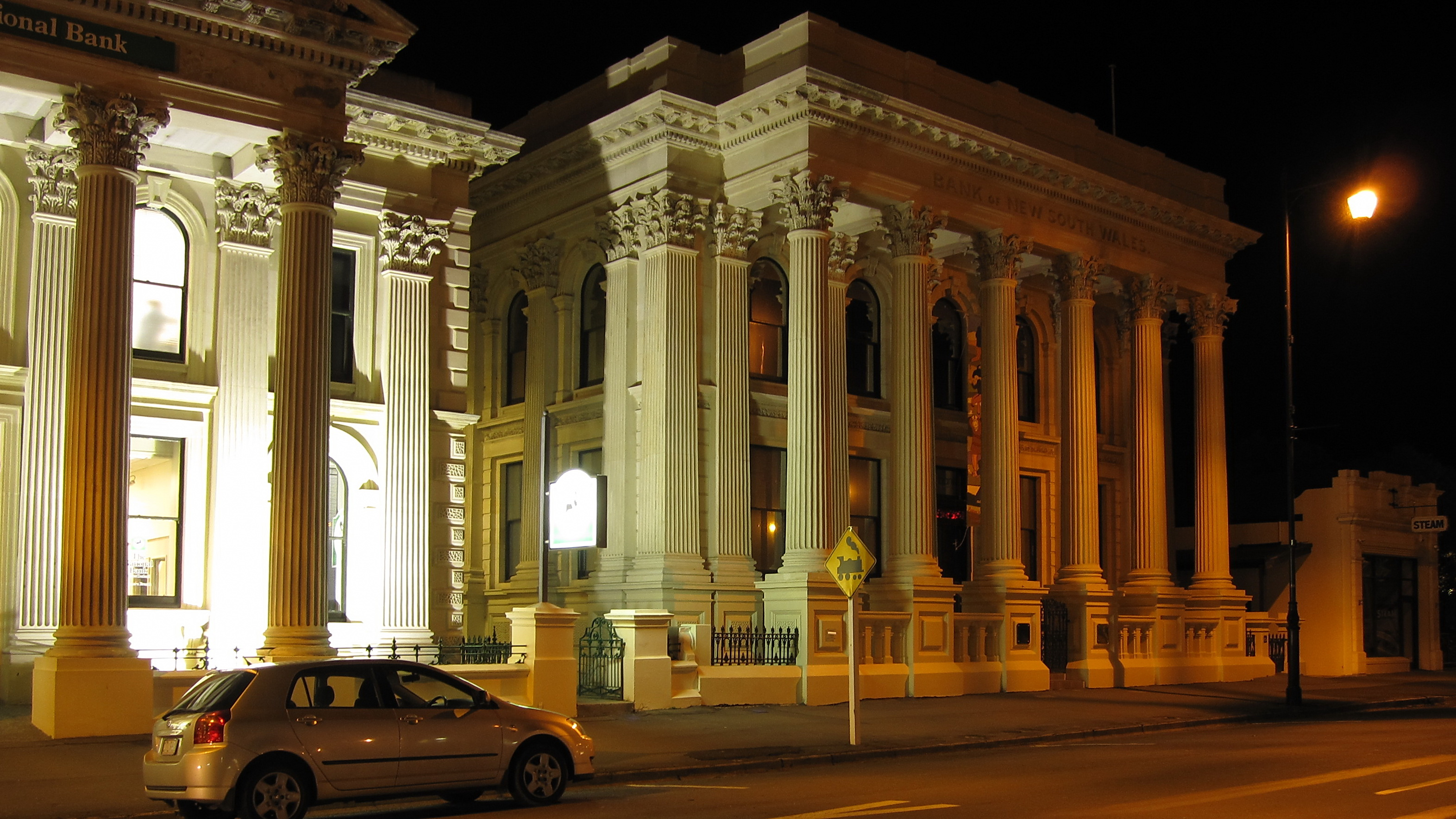 Old Banks, Lower Thames St. Oamaru